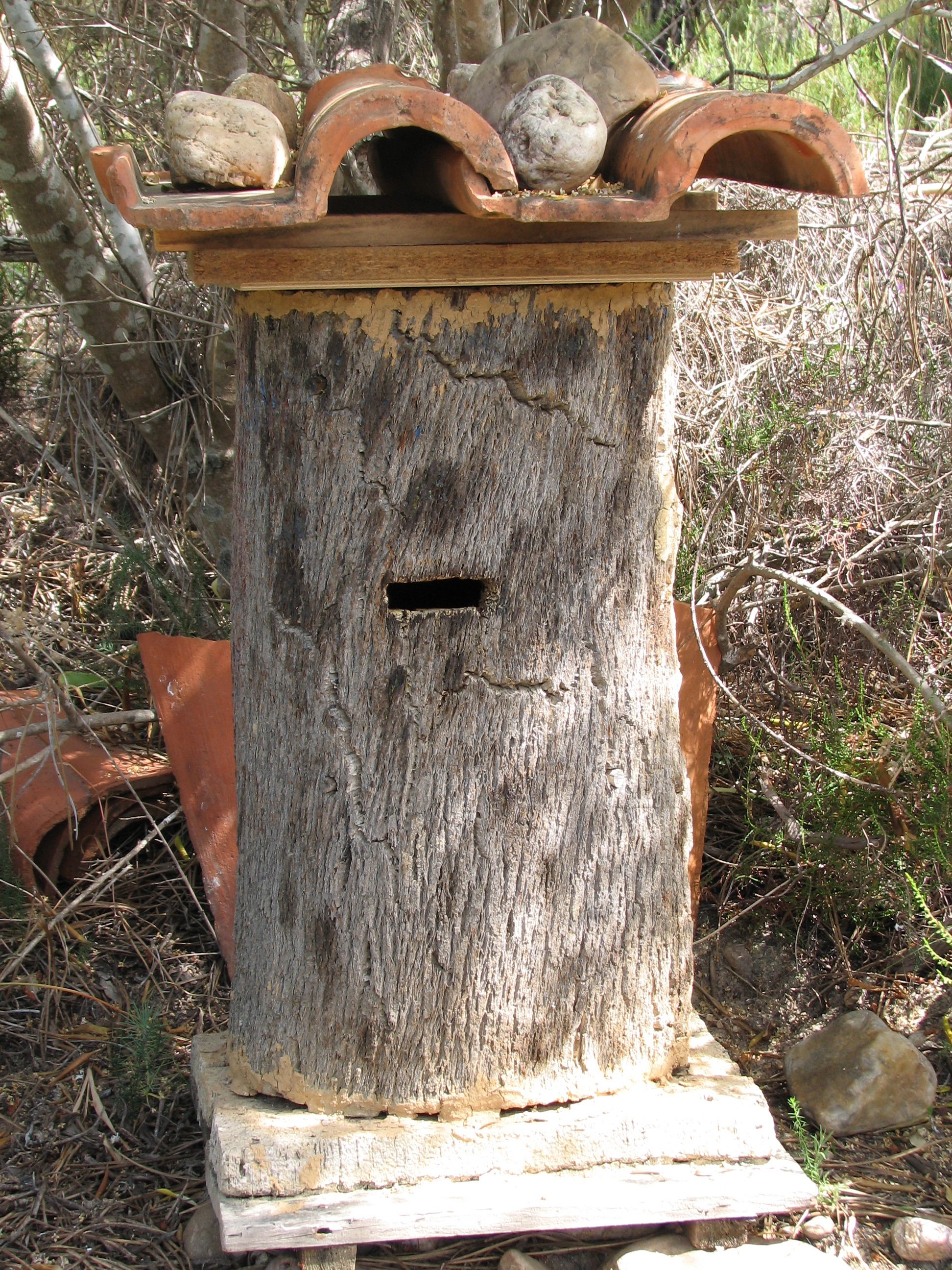 Traditional beehive - handmade with cork ; Author:Daniel Feliciano ; Location:Torres Novas - Portugal